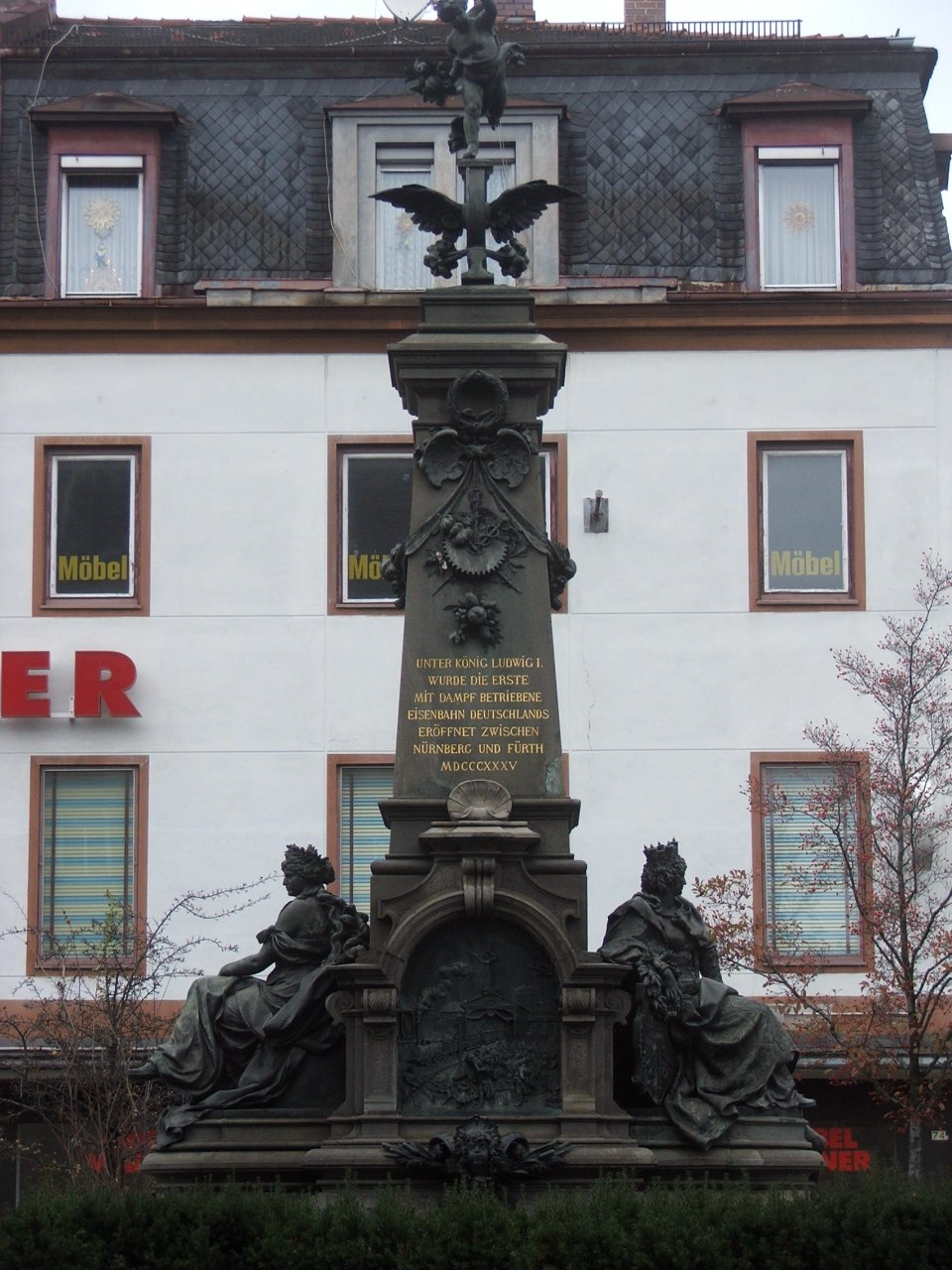 Memorial for the first german steampowered railway between Nuremberg and Fürth